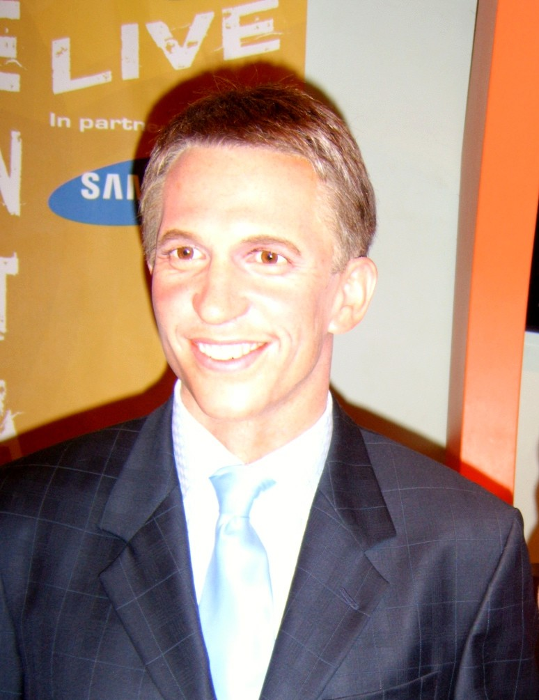 Gary Lineker, former English football player